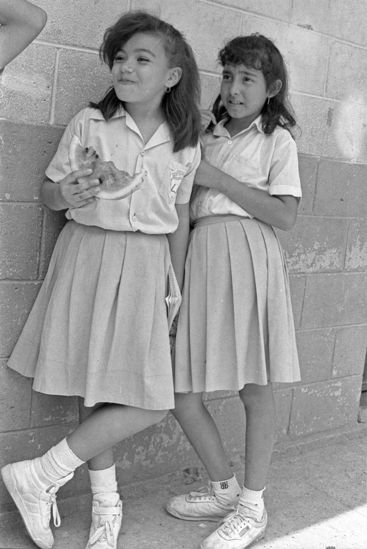 School in Apopa, El Salvador, in 1990